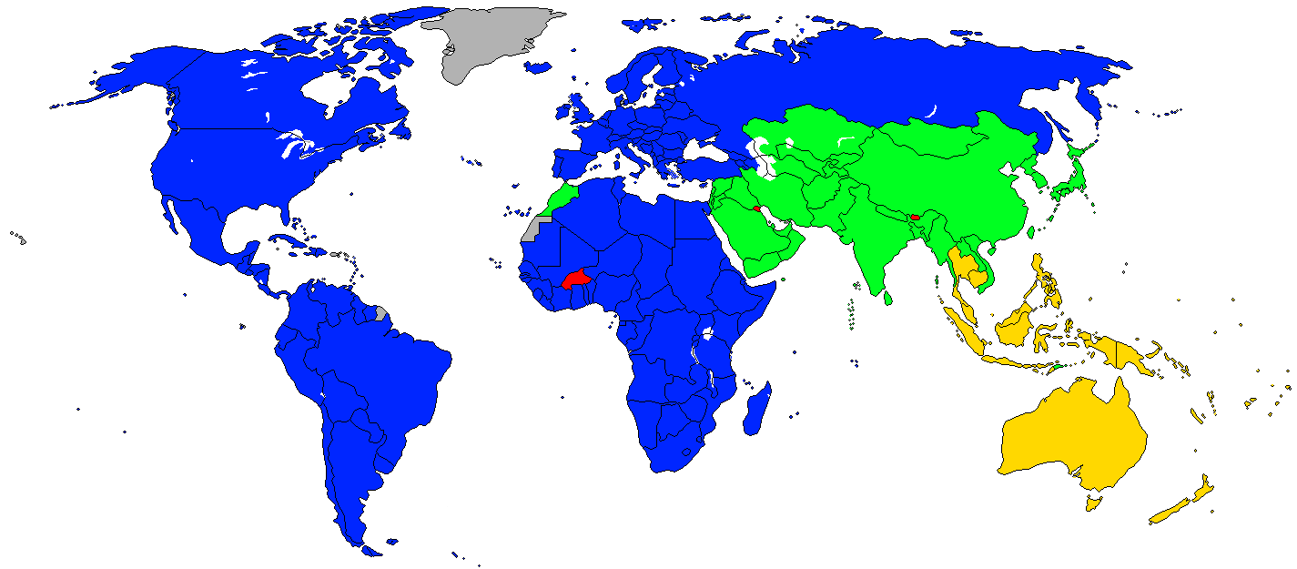 Added borders to the existing world map.